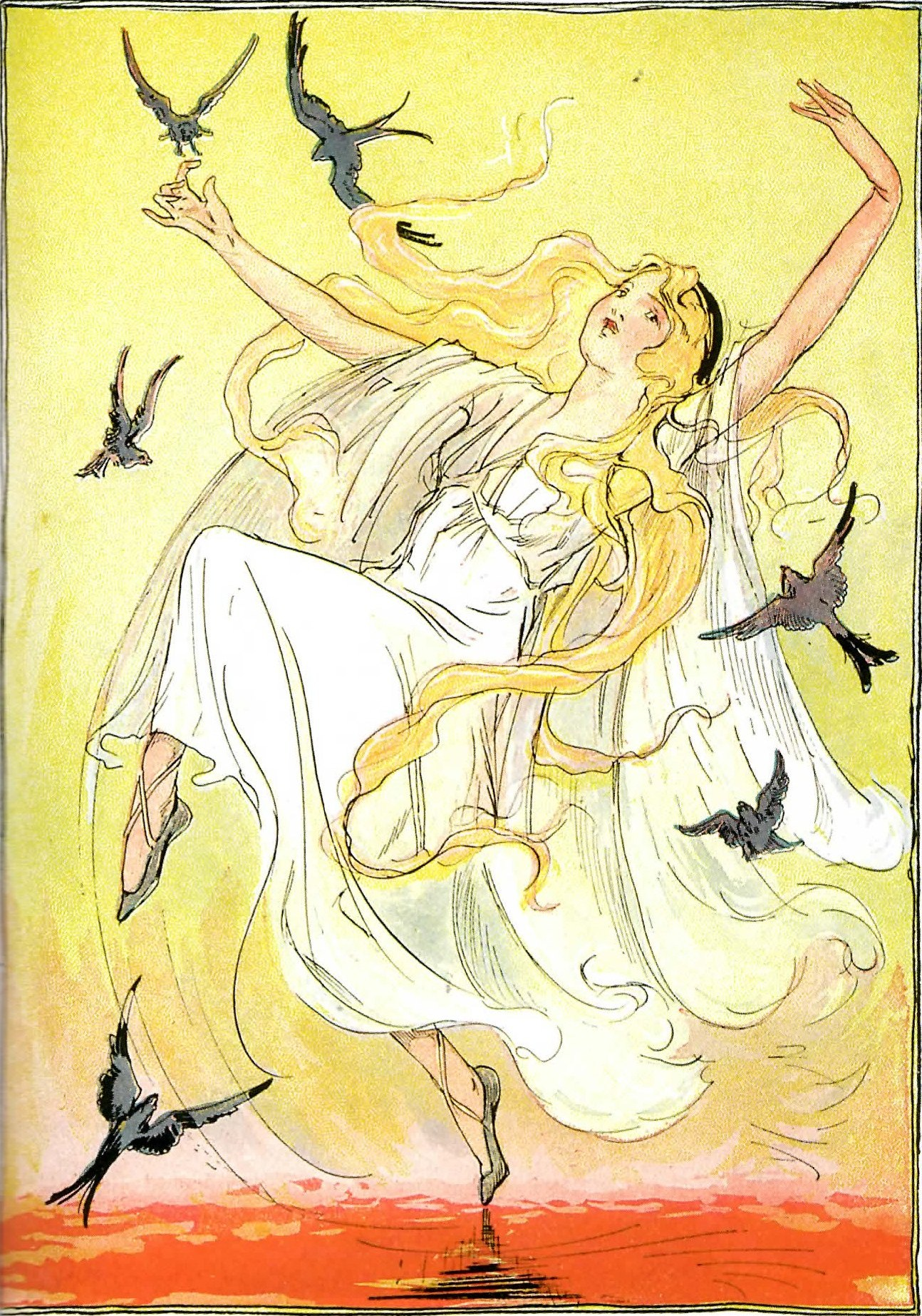 illustration from The Tin Woodman of Oz